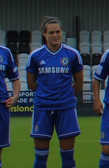 Claire Rafferty before the Continental Cup game